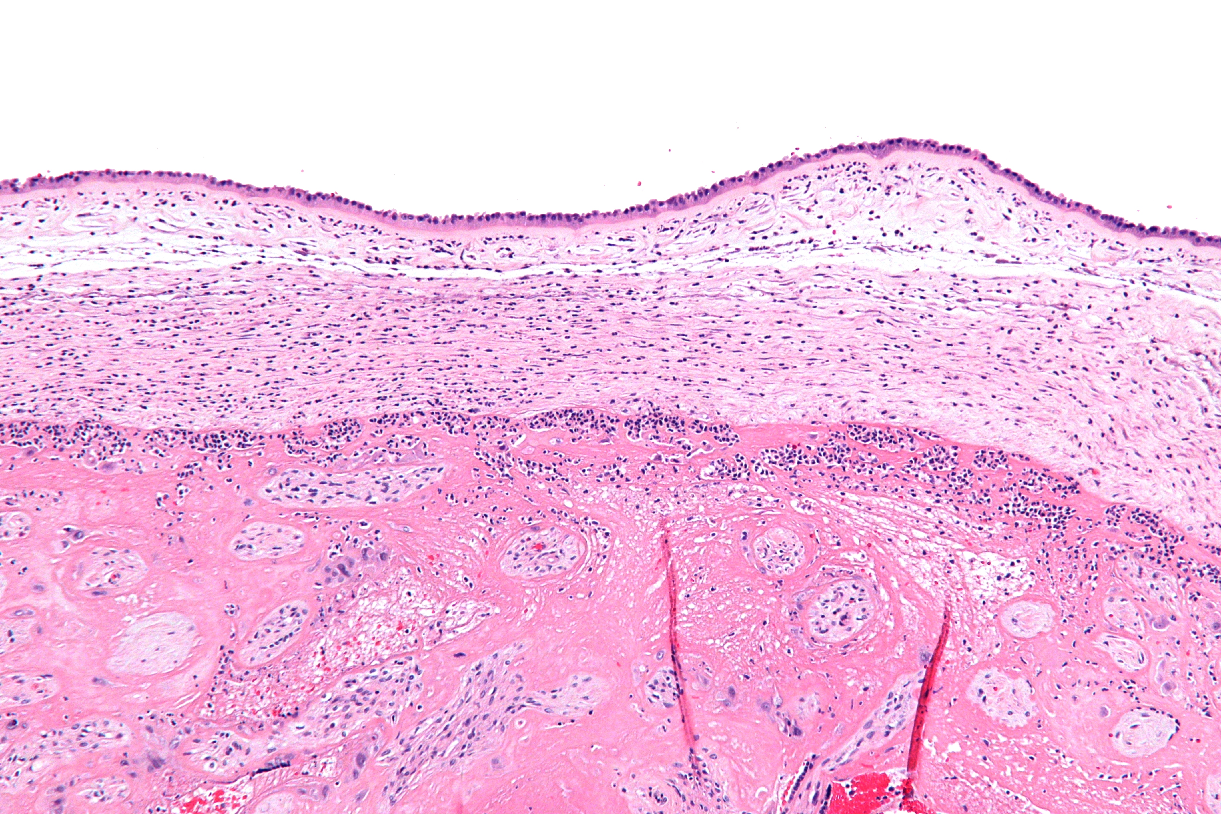 Intermediate magnification micrograph chorioamnionitis. H&E stain. The amnion is seen at the very top of the image and composed of a simple cuboidal epithelium and a layer of eosinophilic (pink) connective tissue. It has a few scattered neutrophils - which makes the diagnosis of chorioamnionitis. Below the amnion is a cleft and then the chorion, which also has neutrophils. The fetus (baby) - not shown - would be below the image (and surrounded by amnionic fluid). The pattern of inflammation seen in this image is typical of chorioamnionitis; most chorioamnionitis results from an ascending infection, i.e. the microorganisms ascend from the vagina/cervix. Related images Low mag. Intermed mag. High mag. Very high mag. Very high mag.